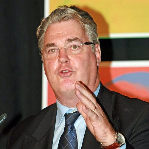 Jean-Paul Delevoye speaking at the Semaines sociales de France at Paris, on the 25th of November, 2011.